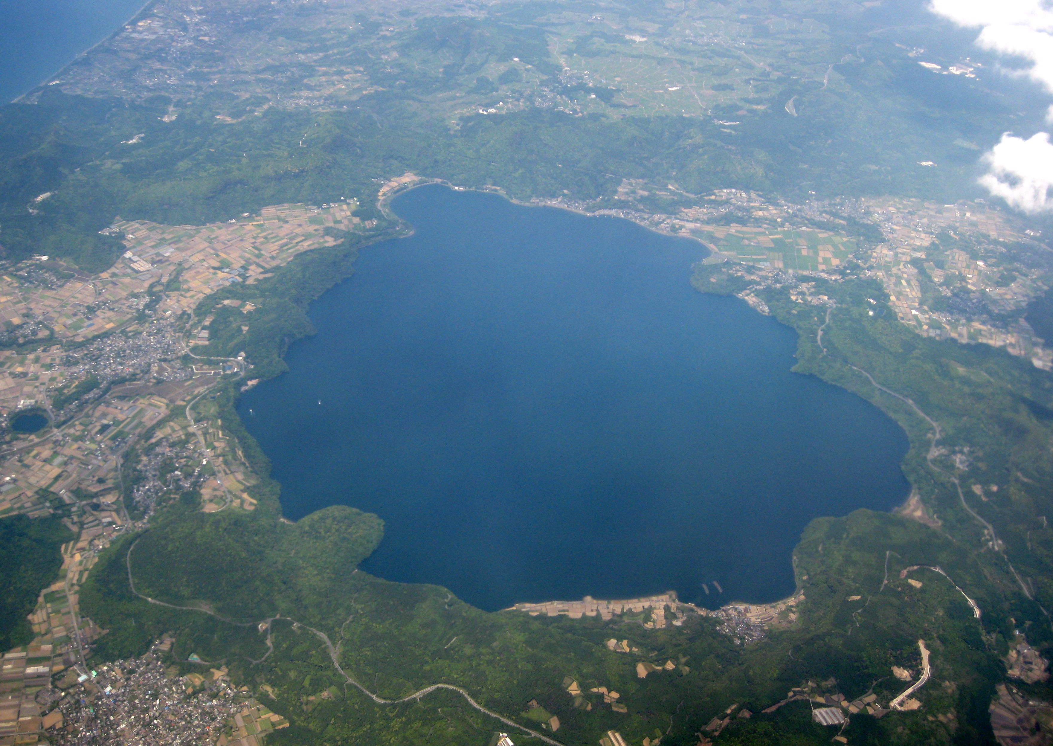 Aerial Photograph of Lake Ikeda in Kagoshima, Japan